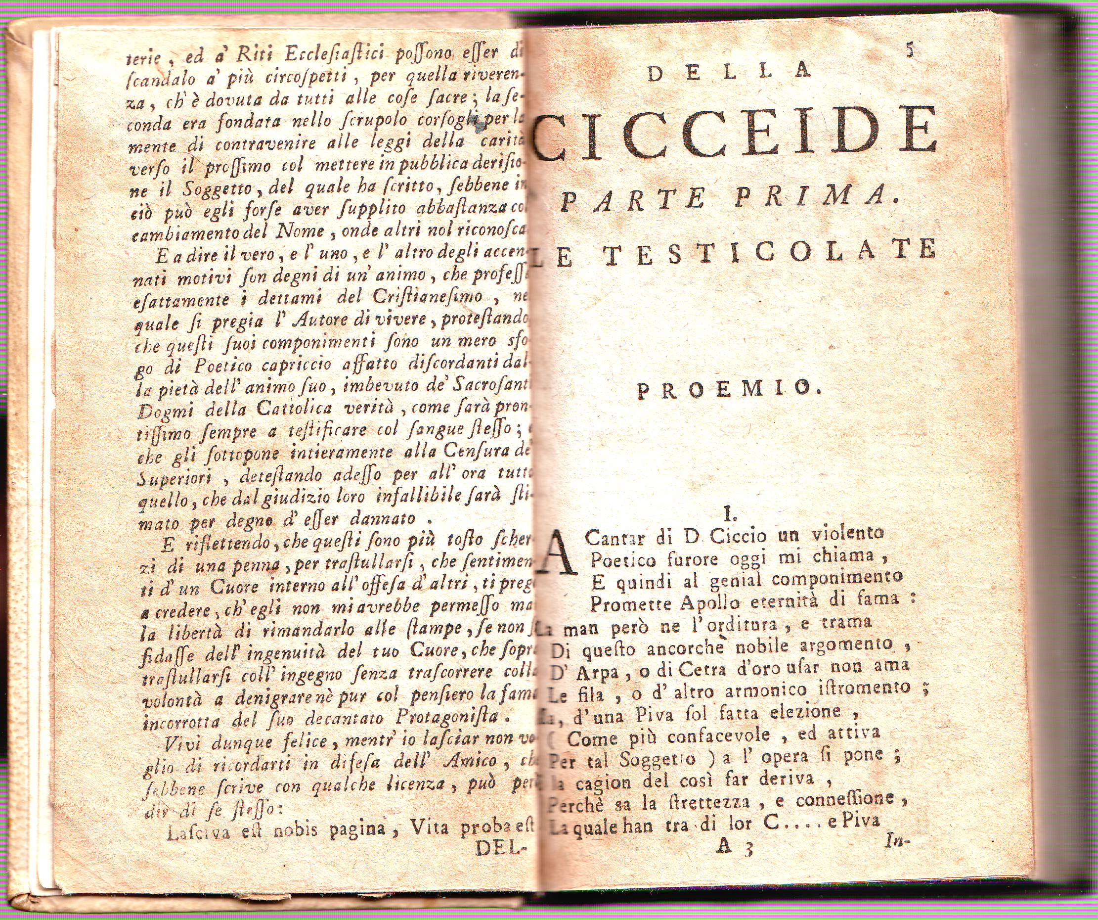 Introduction and first sonnet of the "Cicceide legitima", third edition (1692), an italian literature work of Giovanni Francesco Lazzarelli